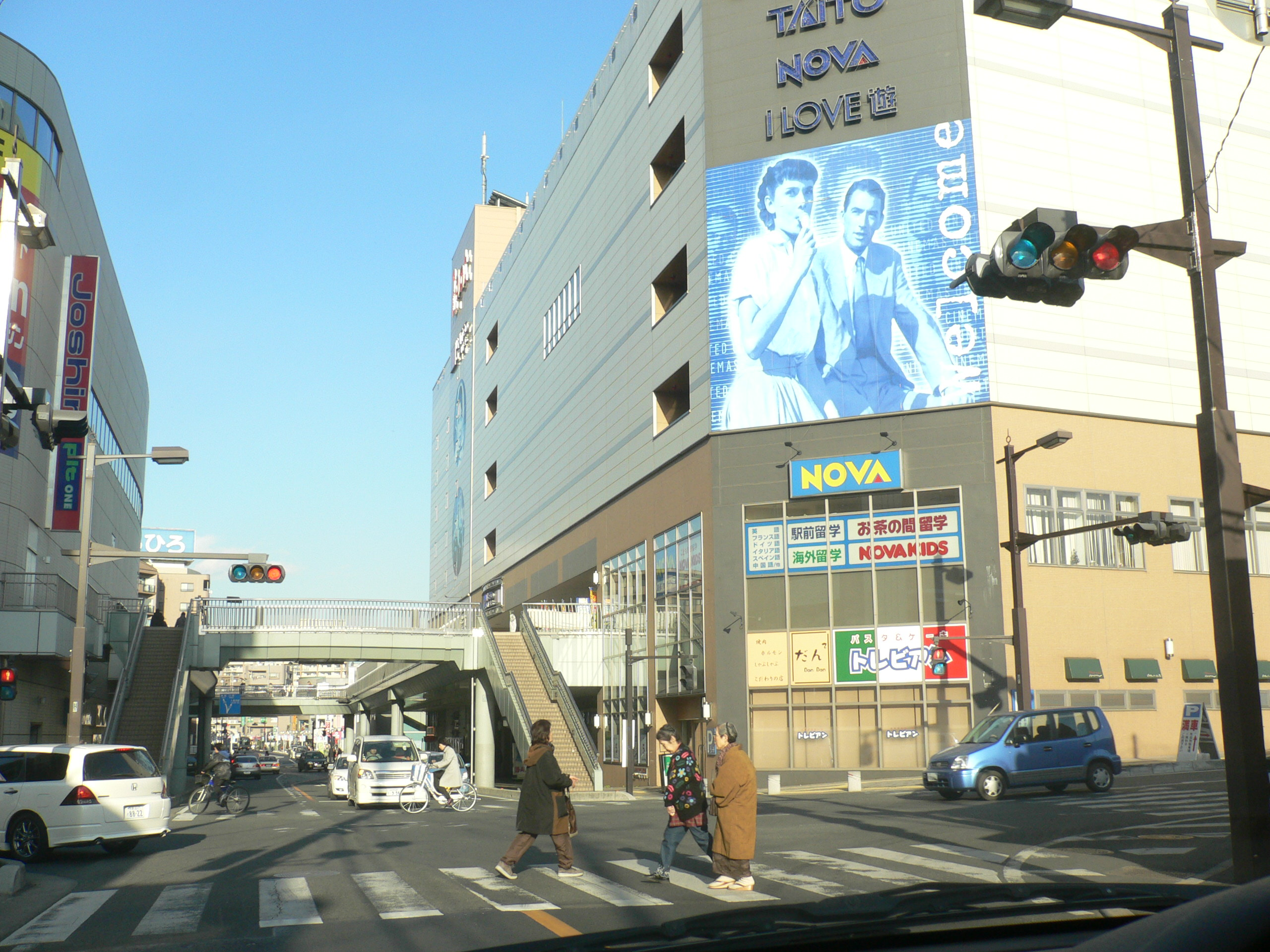 I-Pot (Ipot), Iruma C, Saitama P.